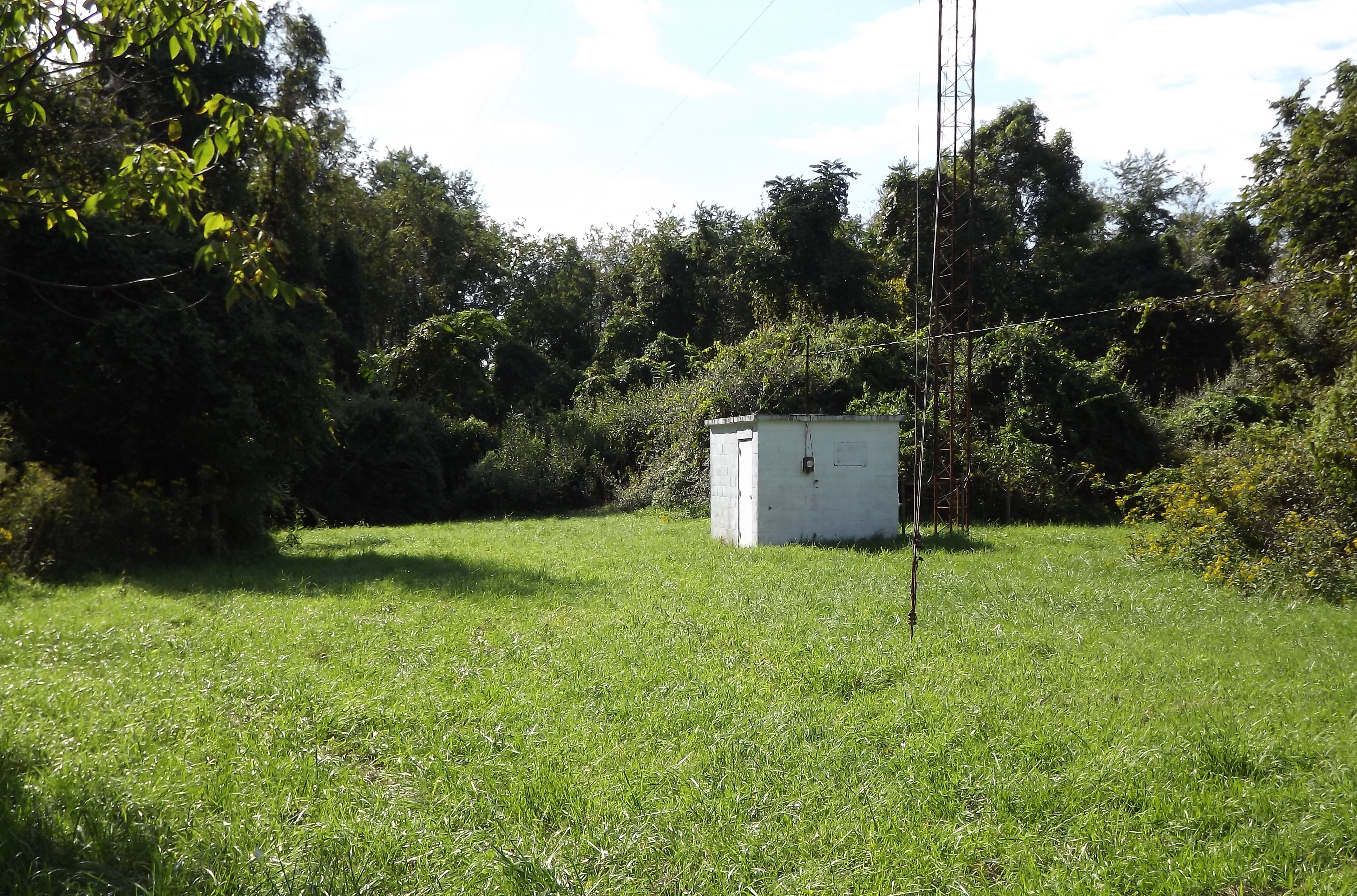 The Tower Site located on the NRHP for Belmont County, Ohio. The site is located outside of Barnesville and was once a village/burial site used by the prehistoric Native Americans from the area. The photograph is taken looking NW over the site. A modern structure was built to accommodate the namesake tower and its functions.